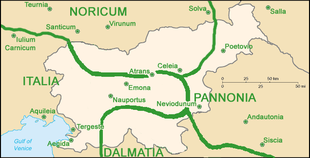 Map of Slovenia with Roman provinces and cities. Ancient Roman provinces and cities (as of 100 A.D.) are in green. Present-day frontiers are in grey. The shore line is that of the 21st century as well.]